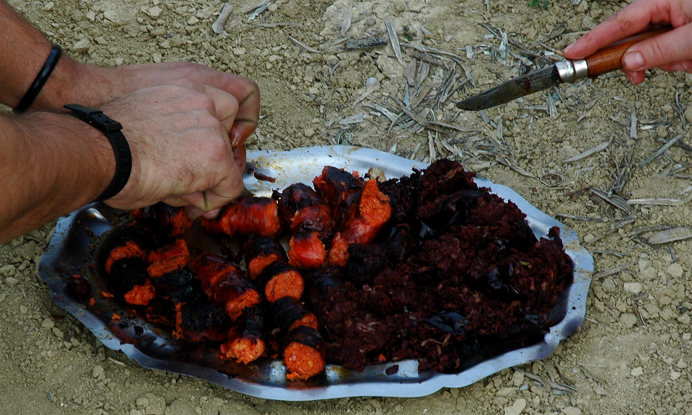 Tray with chorizo and blood sausage, in Spain.